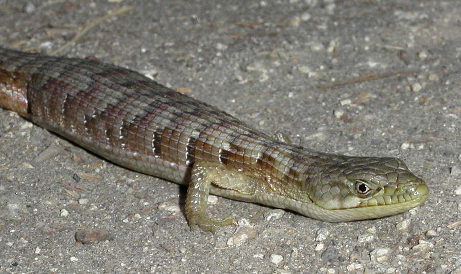 Southern alligator lizard in Lodi, California, United States